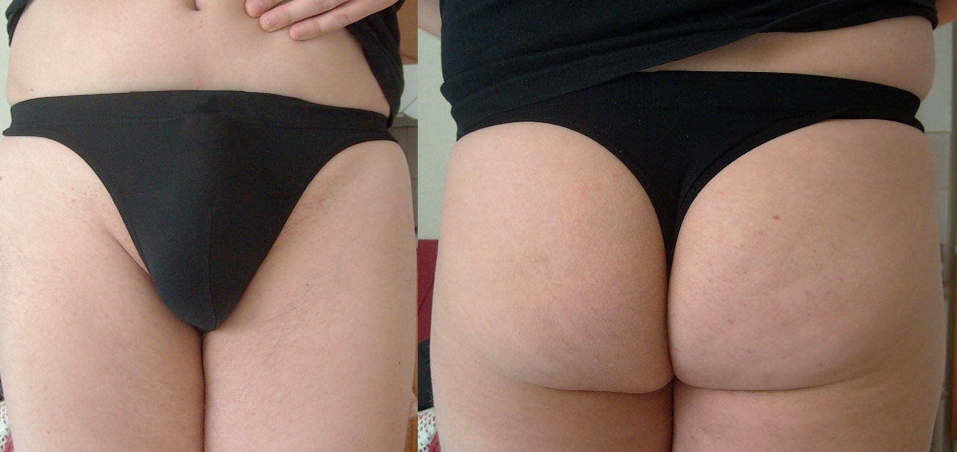 G-string on a man. Own image.